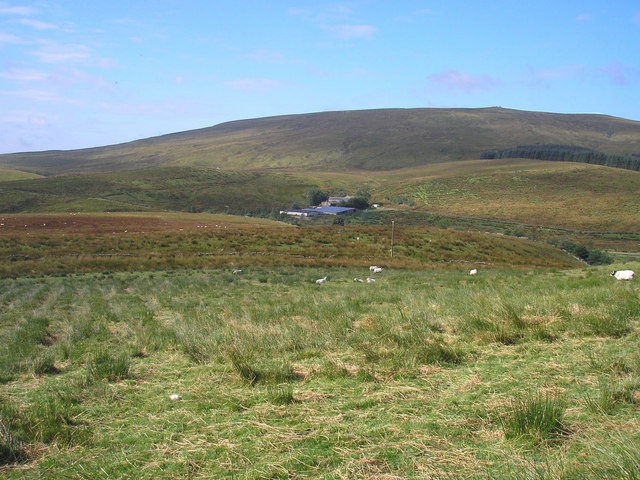 Mouse Syke A farm in Grisedale. Grisedale was once famous (or infamous) as "the dale that died". Some revival has now taken place. Baugh Fell is in the background. The group of cairns just discernible on the skyline is at Grisedale Pike.